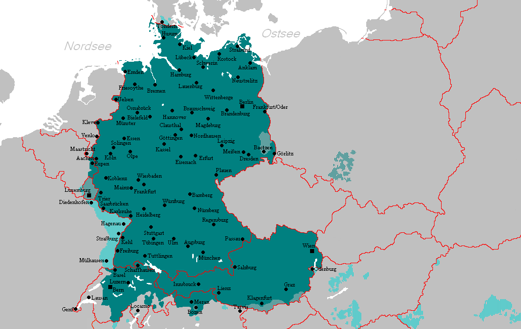 Updated German language area in Europe.